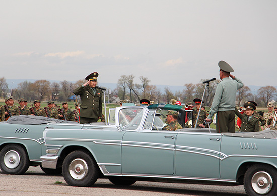 General Rehearsal of the 2015 Bishkek Victory Day Parade.